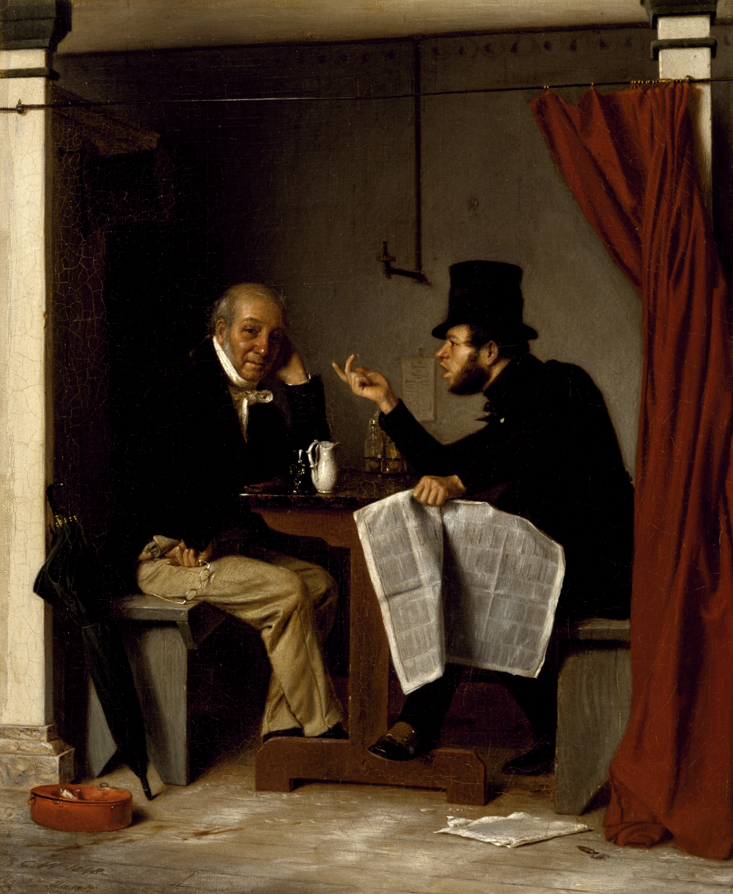 During a brief career Woodville produced a number of paintings that serve as key documents of urban life in pre-Civil War America. After training in his native Baltimore, Woodville traveled to Düsseldorf to enroll in the town's renowned art academy. He remained in Germany for six years and then briefly visited Paris and London before his early death at the age of thirty. While an expatriate, Woodville painted small, anecdotal genre scenes recalling life in Baltimore. Portrayed here is a typical scene in mid 19th-century Baltimore as described by Charles Dickens: "[of] all eaters of fish, or flesh, or fowl, in these latitudes, the swallowers of oysters are not gregarious . . . and copying the coyness of the thing they eat, do sit apart in curtained boxes, and consort by twos, not by two hundreds." The humor Woodville usually imparted to his subjects is illustrated in this typical Baltimore scene showing local individuals, seated in the booth of an oyster house, engaged in conversation. This work was executed in Düsseldorf for the Baltimore lawyer John H. B. Latrobe (1803-1891).